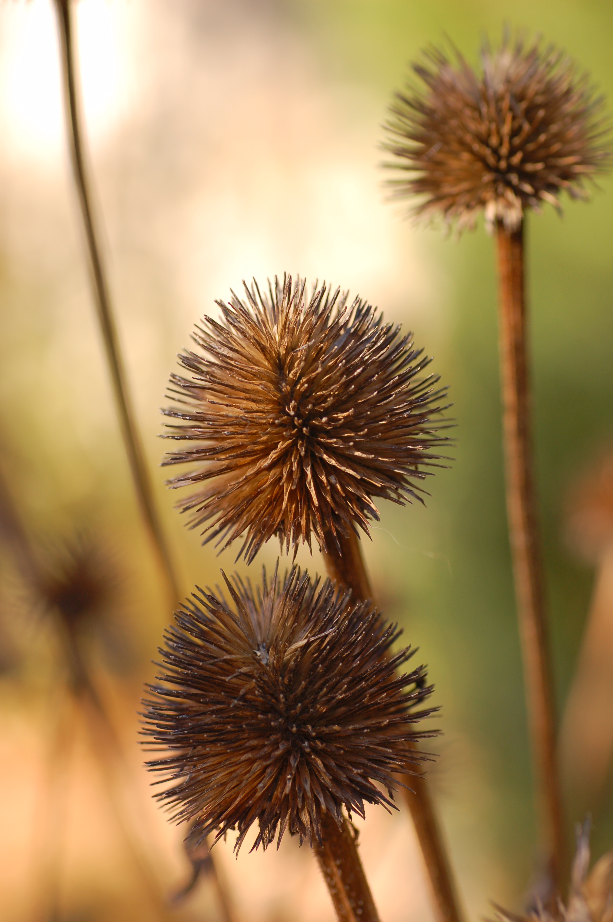 Photograph of the Purple Conefloweren (Echinacea purpurea en ). Photo taken at the Tyler Arboretum where it was identified.